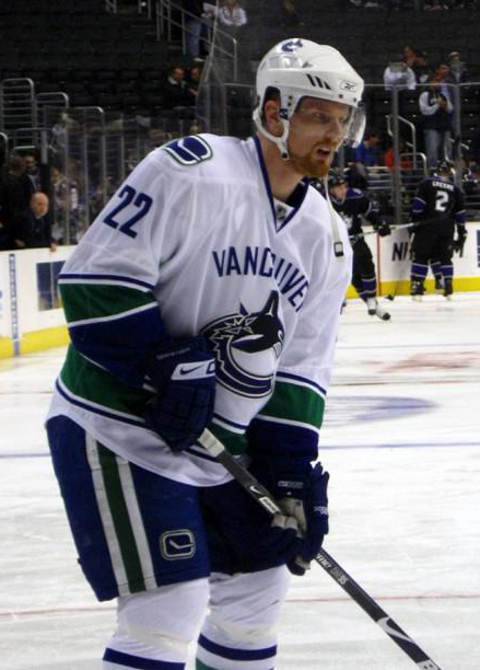 Photo by Matthew McPherson, Staples Center, Los Angeles, CA